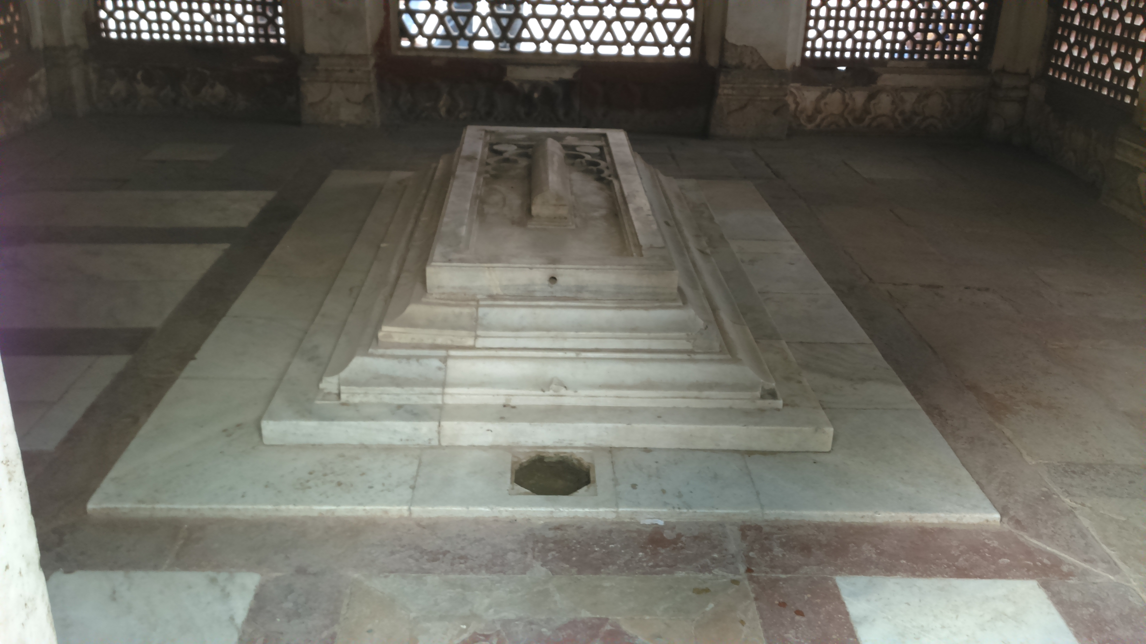 Tomb of Imam Zamin